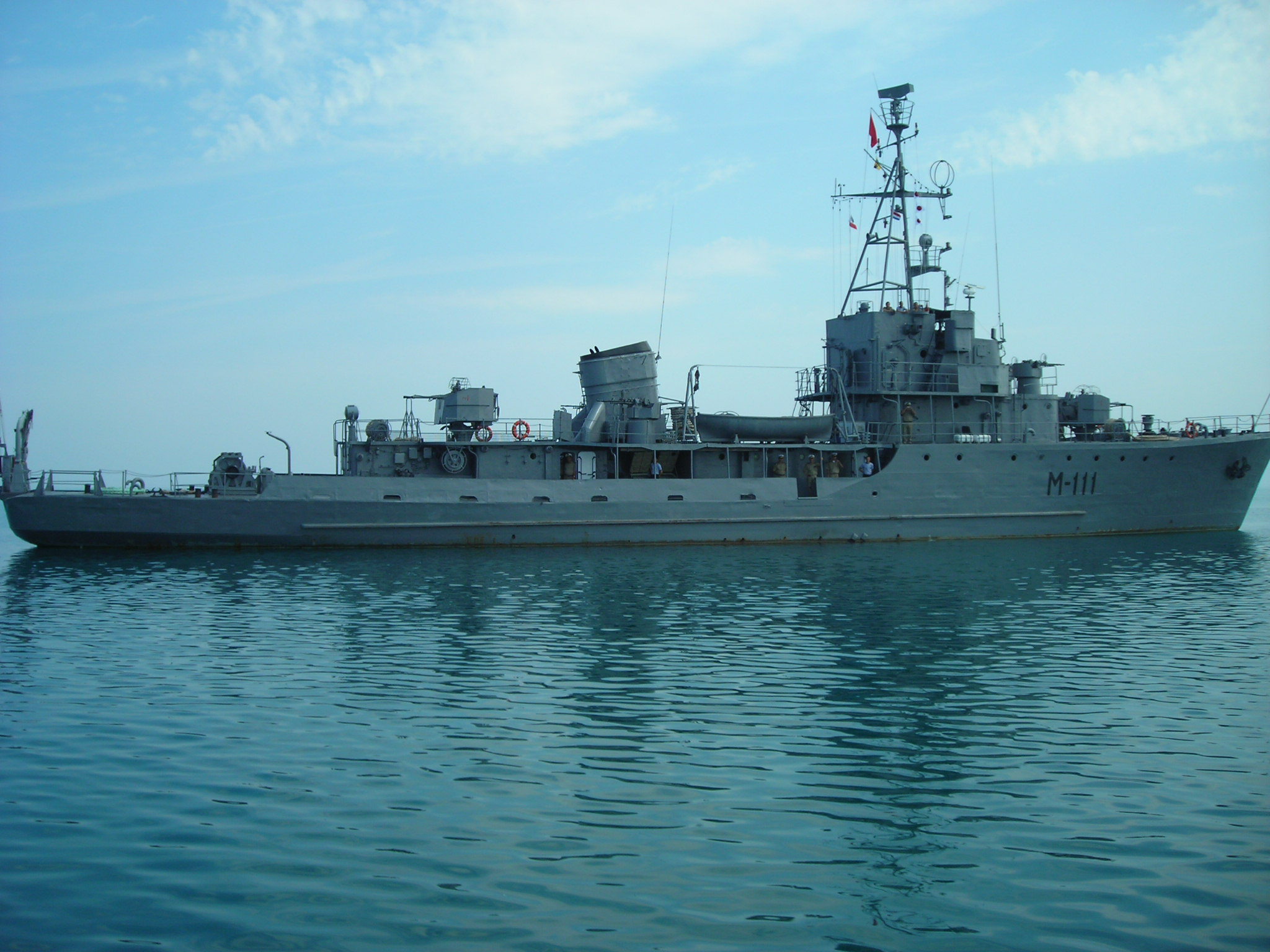 The Soviet built ship still in use with the Albanian Navy Brigade, minesweeper M-111.